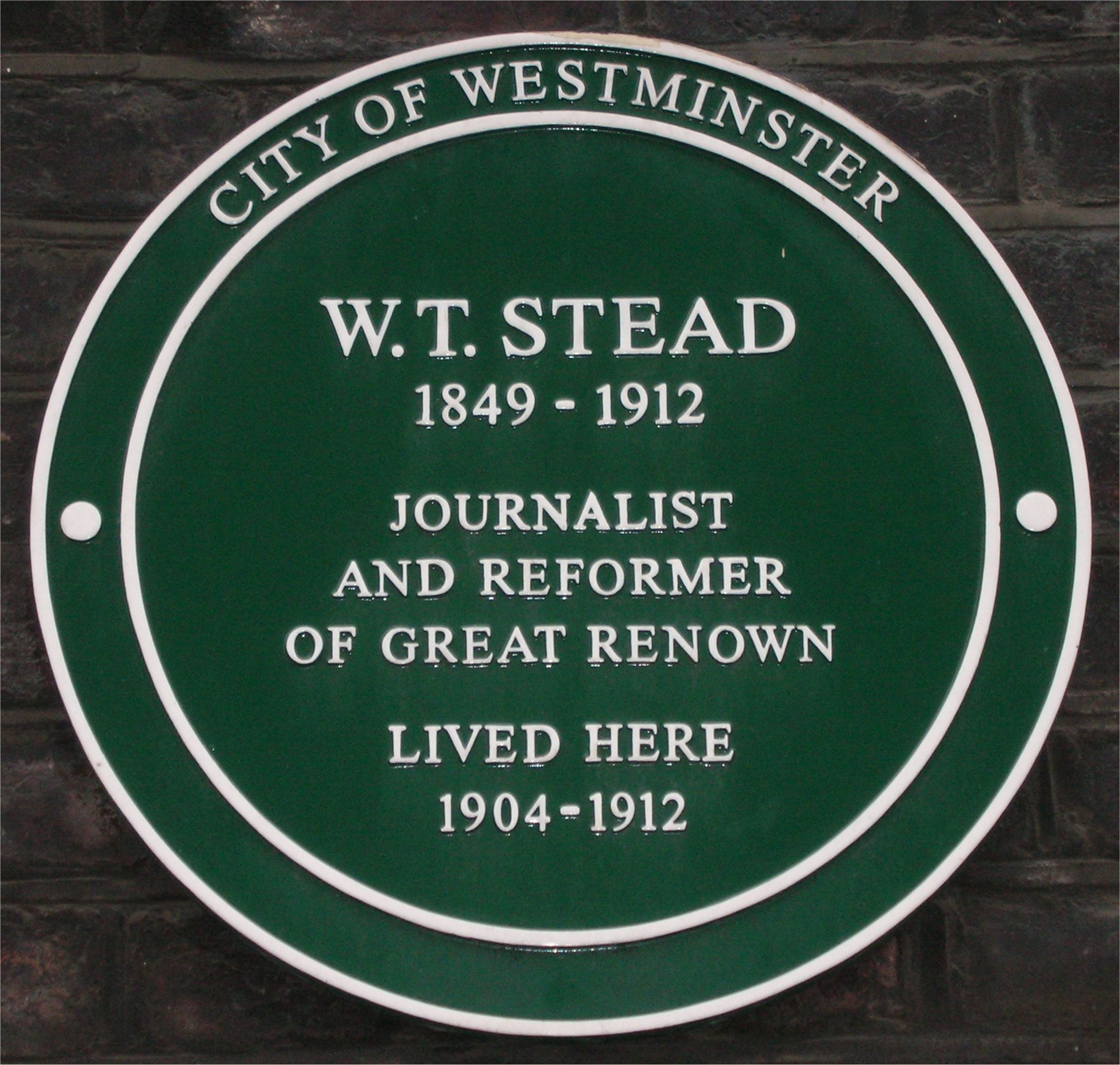 Green plaque on William Thomas Stead's house in Smith Square, Westminster, London. Photographed by me 25 February 2007. Oosoom